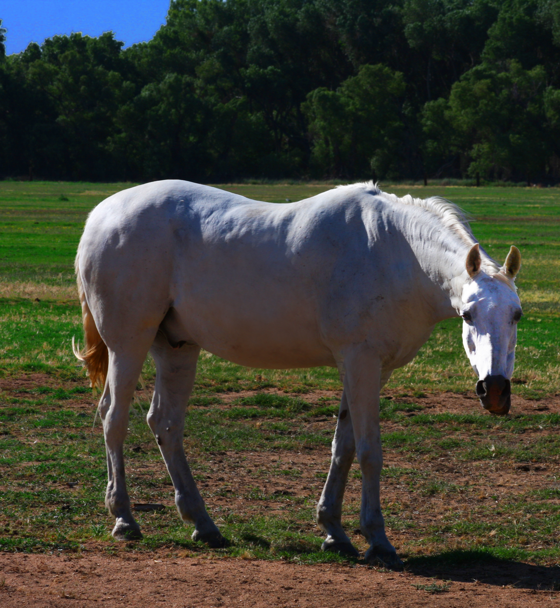 Photograph of a White Horse